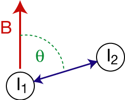 Solid-state NMR dipolar coupling vectors. Angle with external magnetic field.